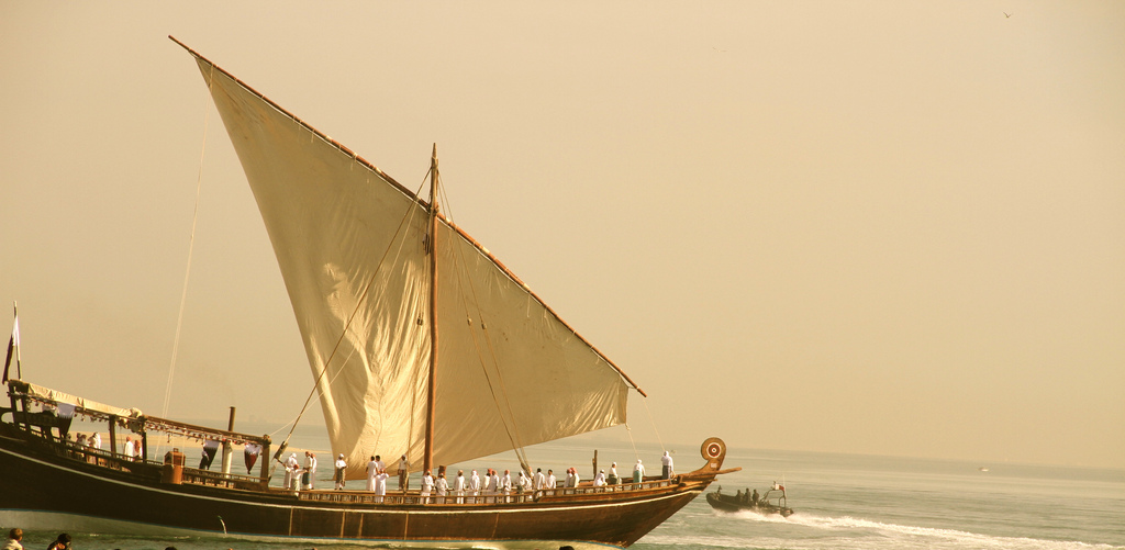 A dhow festival in Qatar.